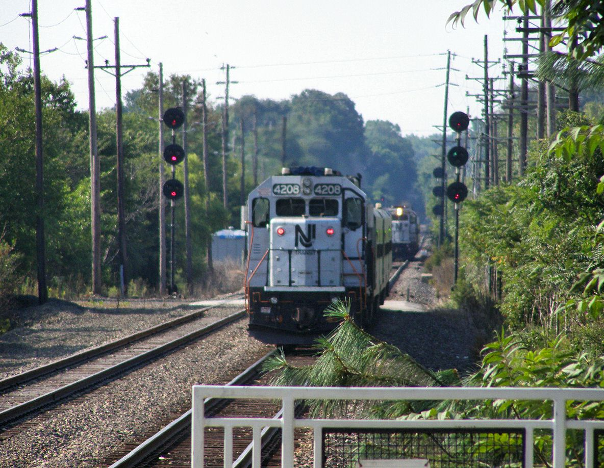 Two Atlantic City Line trains perform a scheduled meet at a passing siding near the Cherry Hill Station (seen in the foreground). The train is the foreground is about to take a Medium Clear signal at RACE interlocking for the diverging route back onto the main track.